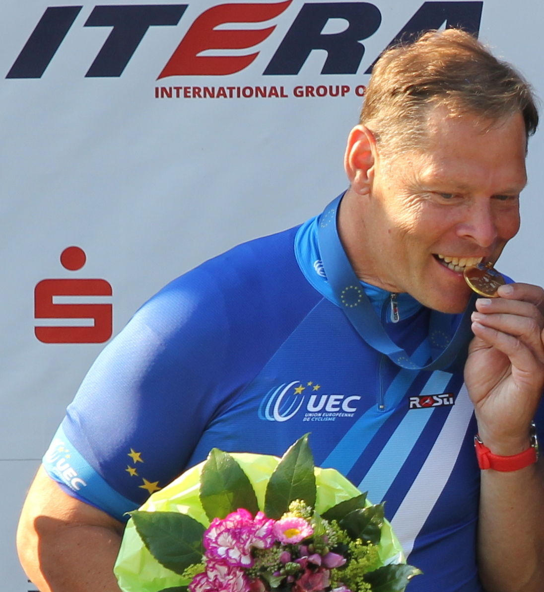 UEC Derny European Championship 2015 - Finals place 1 - 9, 120 laps / 40 km, f.l.t.r. Michel Vaarten (Belgium)